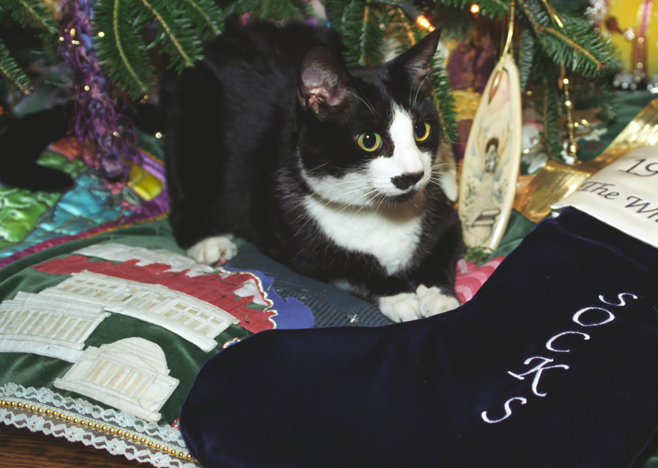 Title: Photograph of Socks the Cat Sitting next to a Christmas Stocking Embroidered with the Name Socks: 12/21/1993 Creator: President (1993-2001 : Clinton). White House Photograph Office. (01/20/1993 - 01/20/2001) Types of Archival Materials: Photographs and other Graphic Materials Contacts: William J. Clinton Library (NLWJC), 1200 President Clinton Avenue, Little Rock, AR 72201. Phone: 501-244-2877; Fax: 501-244-2881; Production Dates: 12/21/1993 From: Series: Photographs Relating to the Clinton Administration, compiled 01/20/1993 - 01/20/2001 Collection WJC-WHPO: Photographs of the White House Photograph Office (Clinton Administration), 01/20/1993 - 01/20/2001 Persistent URL: Access Restriction(s): Unrestricted Use Restriction(s): Unrestricted